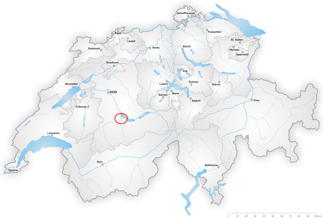 Country-side map of the Kander river correction